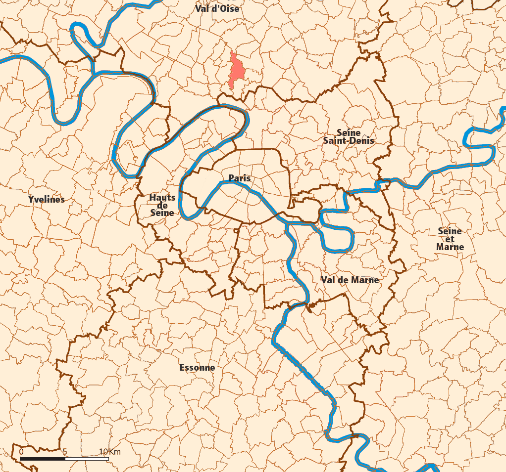 Created map myself.